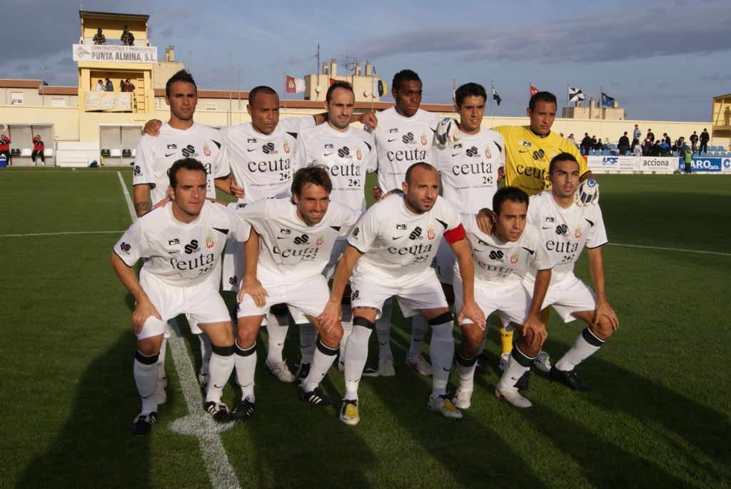 Asociación Deportiva Ceuta, Spanish football team based in the autonomous city of Ceuta. Founded in 1996.